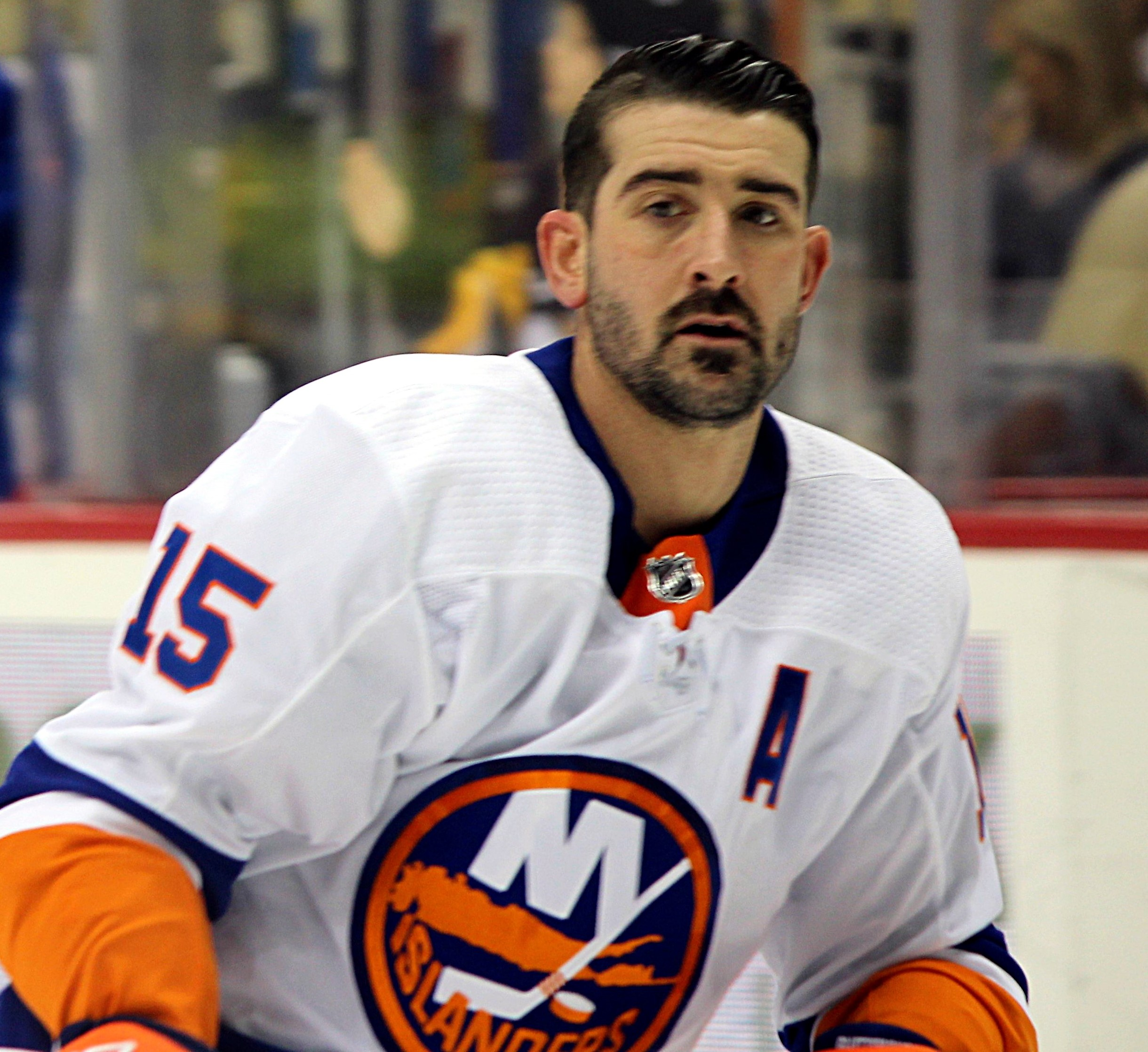 New Yorks Islanders forward Cal Clutterbuck during a game against the Pittsburgh Penguins at PPG Paints Arena in Pittsburgh, PA. Saturday, March 3, 2018.